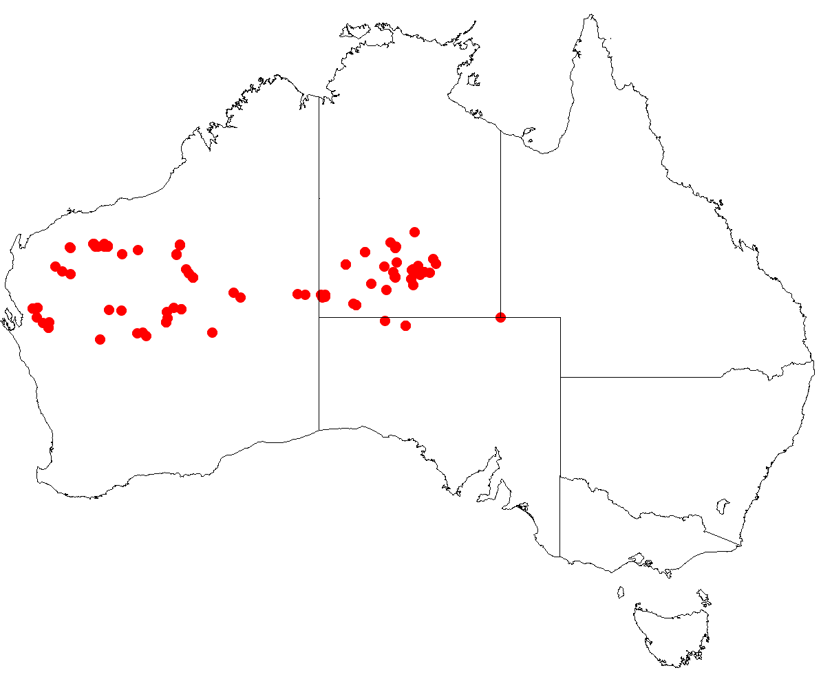 Australian distribution of Amyema hilliana based on download from Australasian Virtual Herbarium May 9, 2018